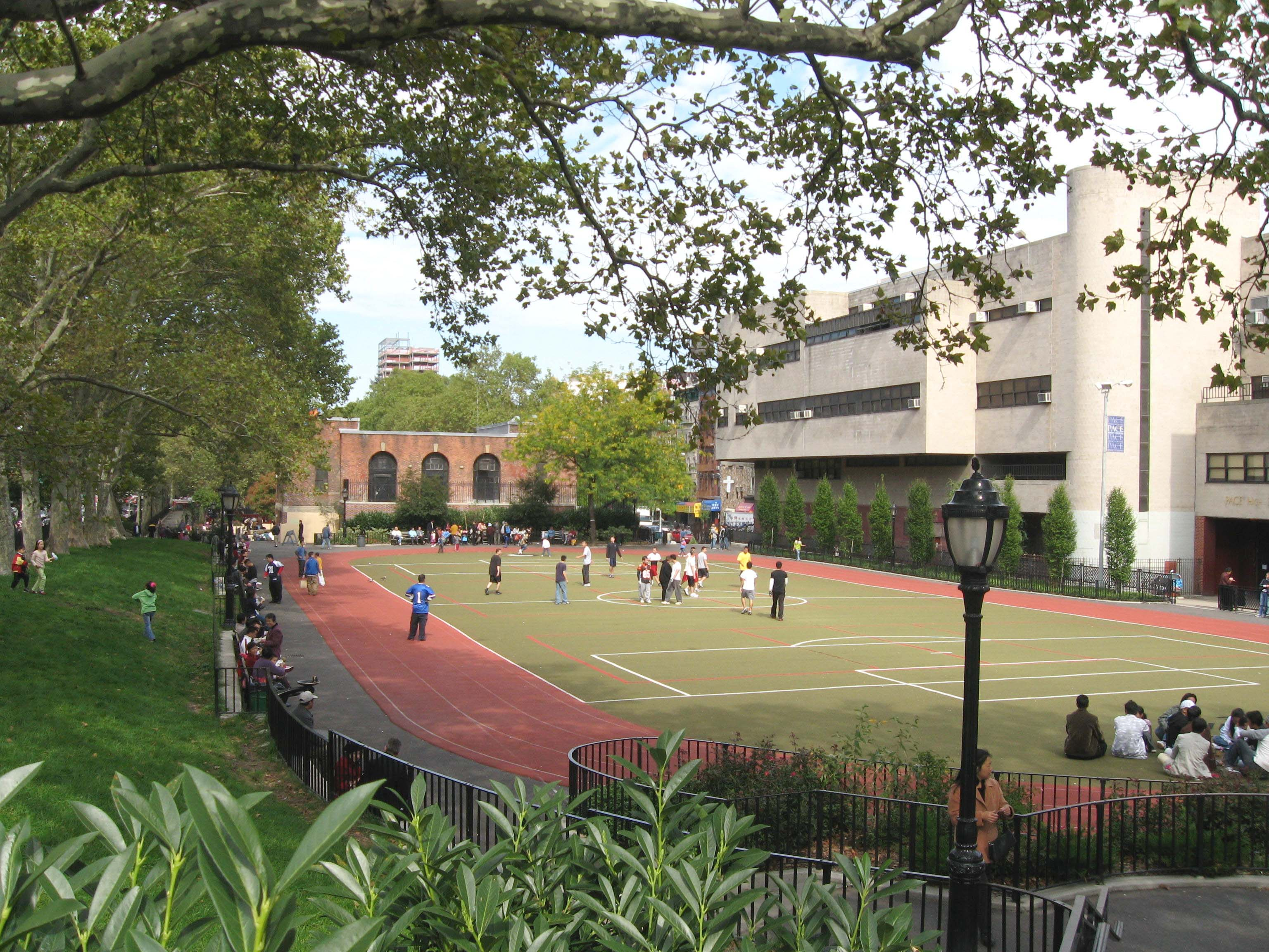 Looking northeast from Canal Street into Sara Delano Roosevelt Park soccer pitch where football game is underway on a hazy midday. Pace University High School is on the right.